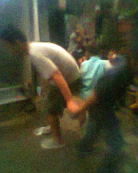 perepet jengkol